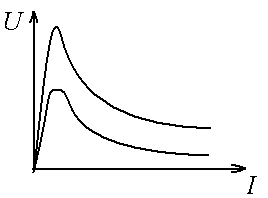 Thermistor Volt Amper Charatheristic (VAC)